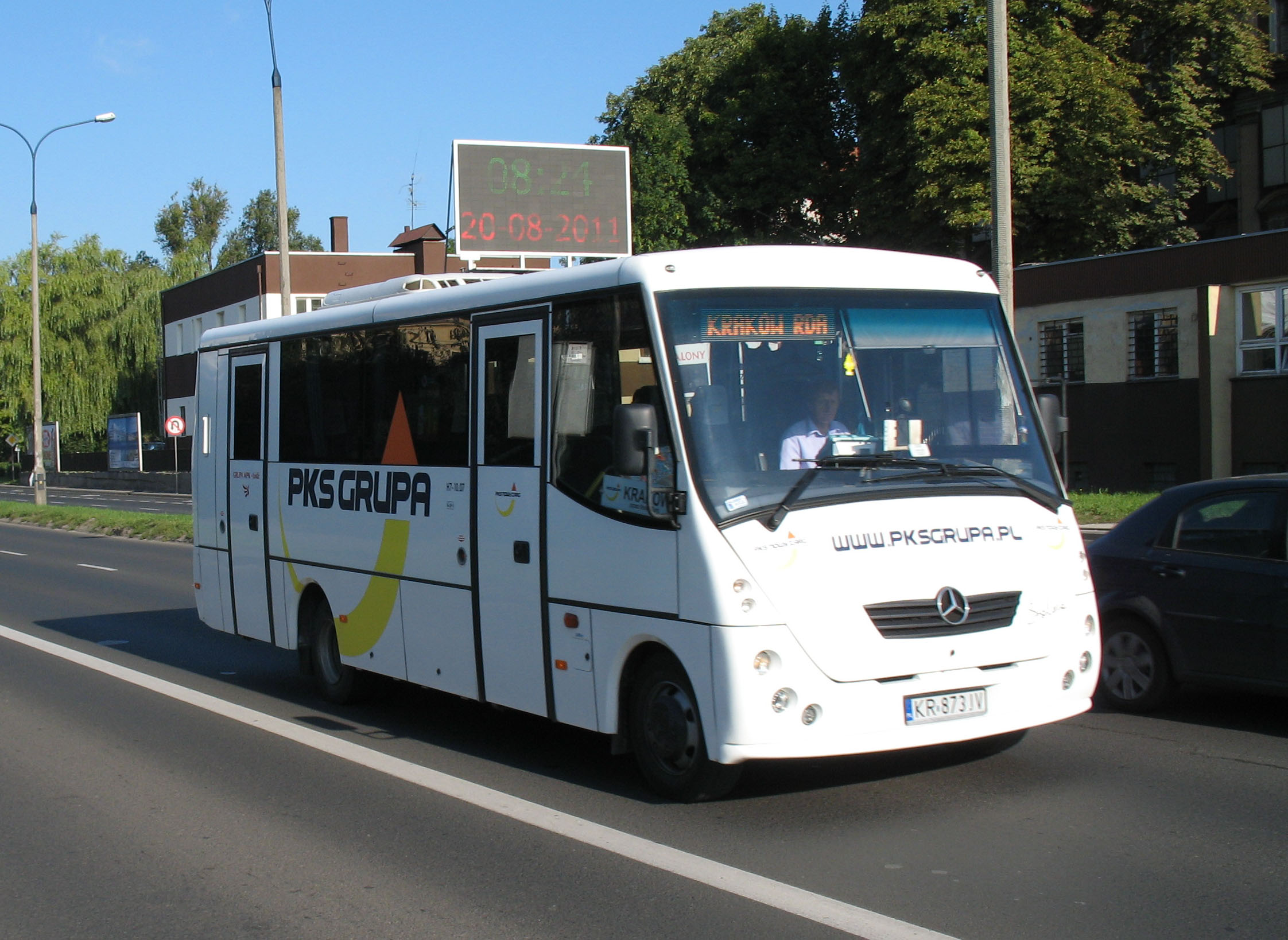 Autosan H7-10.07 Solina bus in Kraków, Poland. Built 2009, PKS Nowy Targ operator.